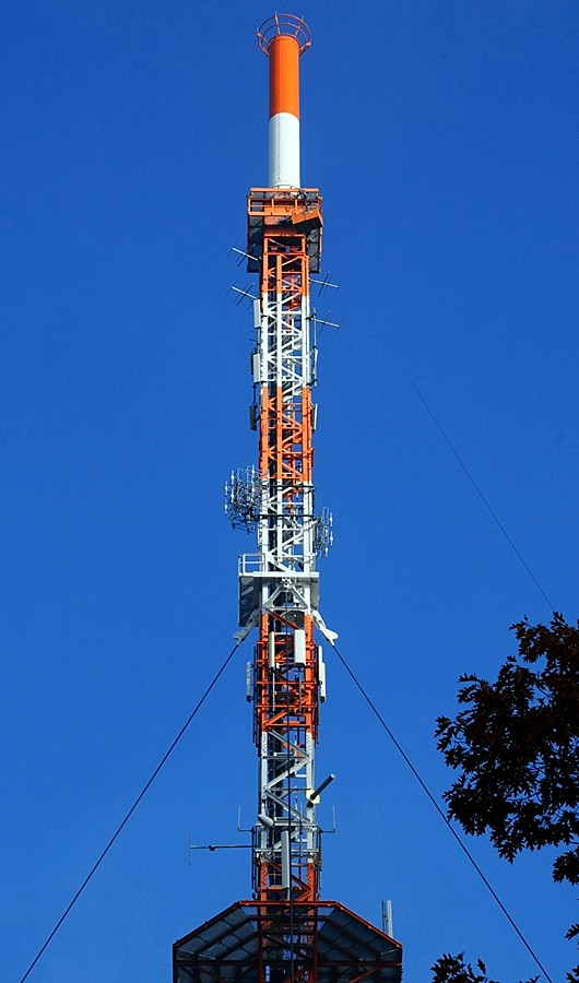 Transmitter / Radio Station 'Rotbühl - Amberg'